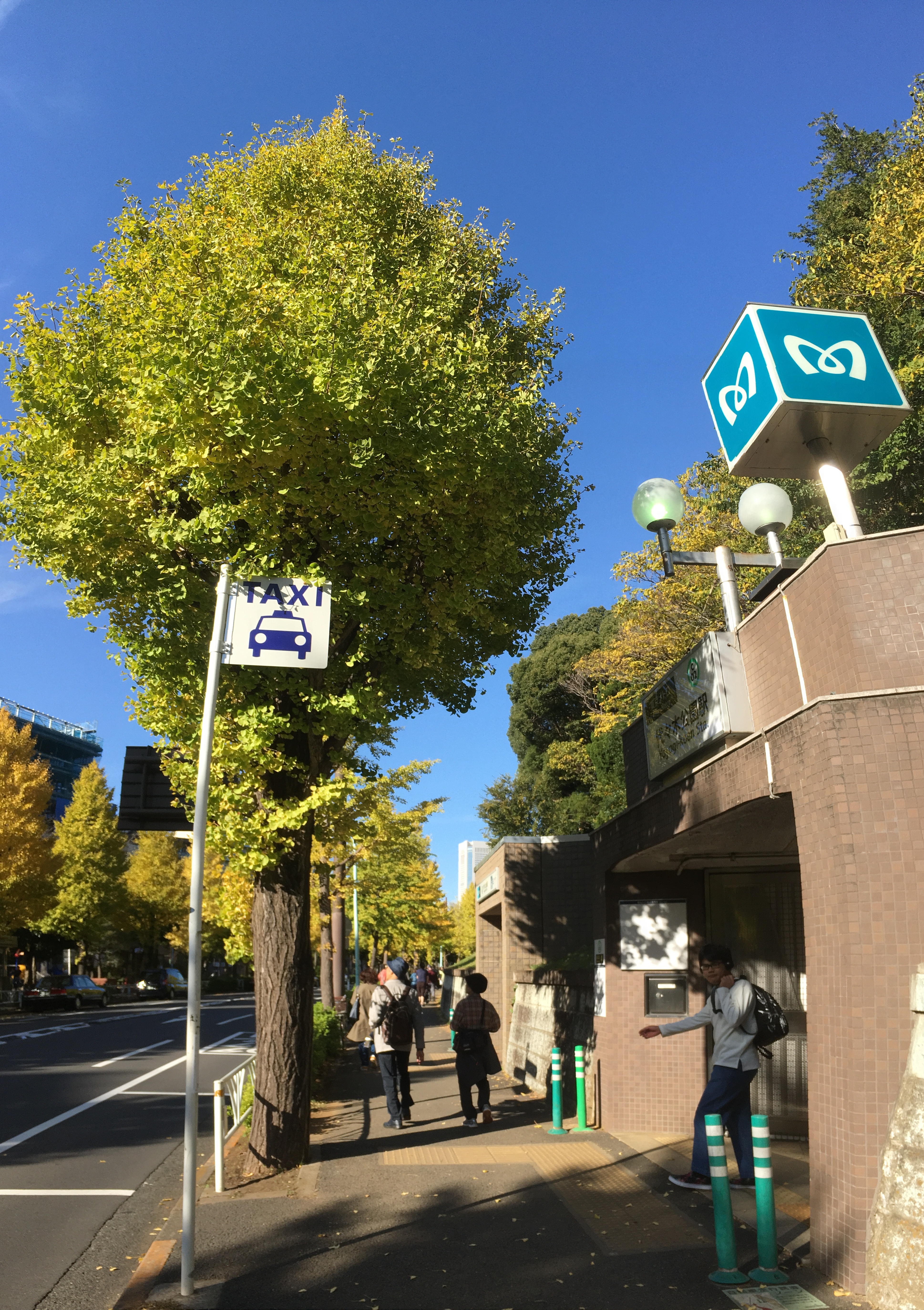 代々木公園駅 (Yoyogi-Kōen Station)